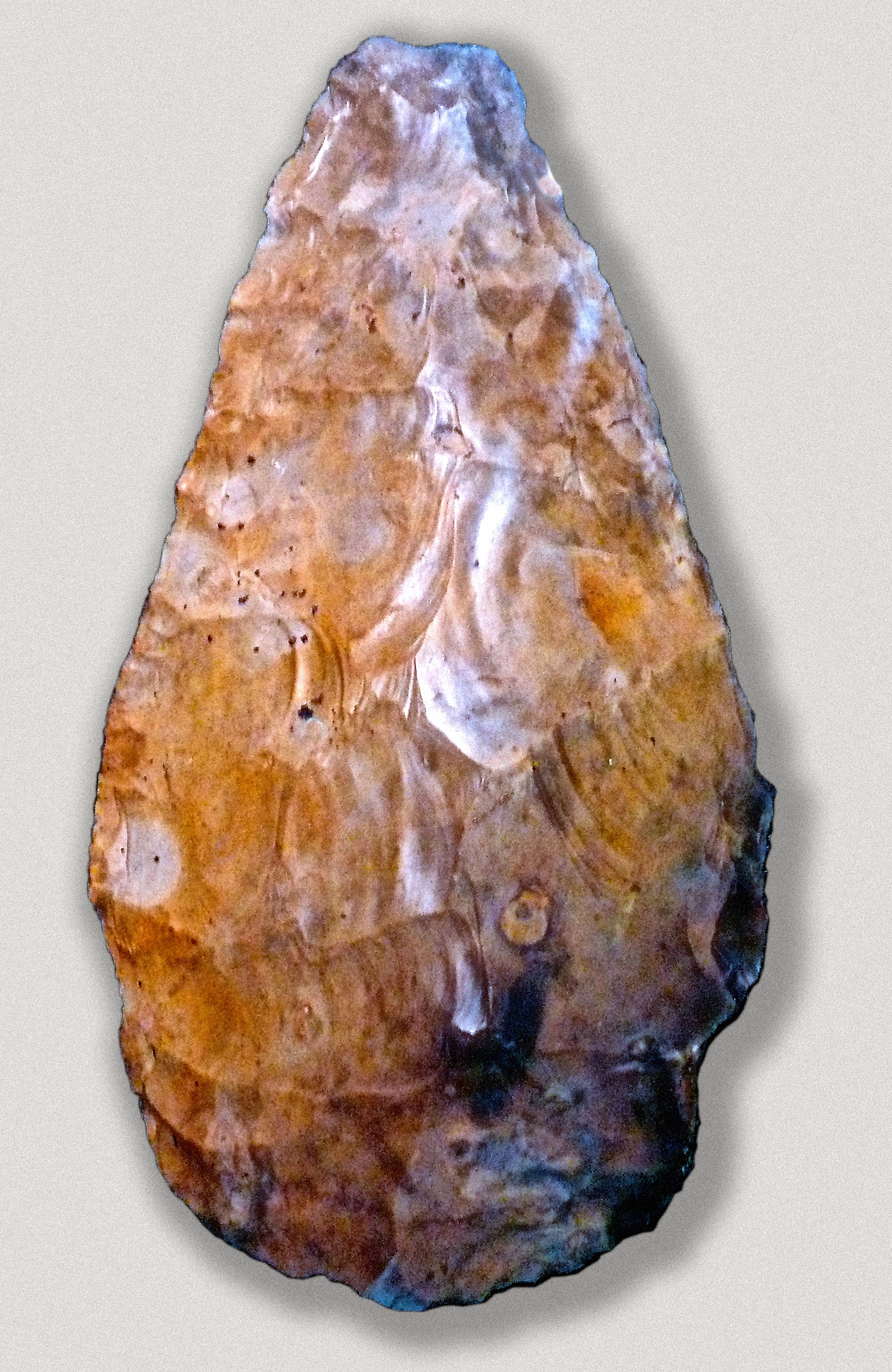 Biface from Furze Platt, Berkshire (England), 40 cm long, in considered one of the largest in Europe, is said to be too bulky to be useful, and therefore it is attributed a symbolic utility. 300 KYA